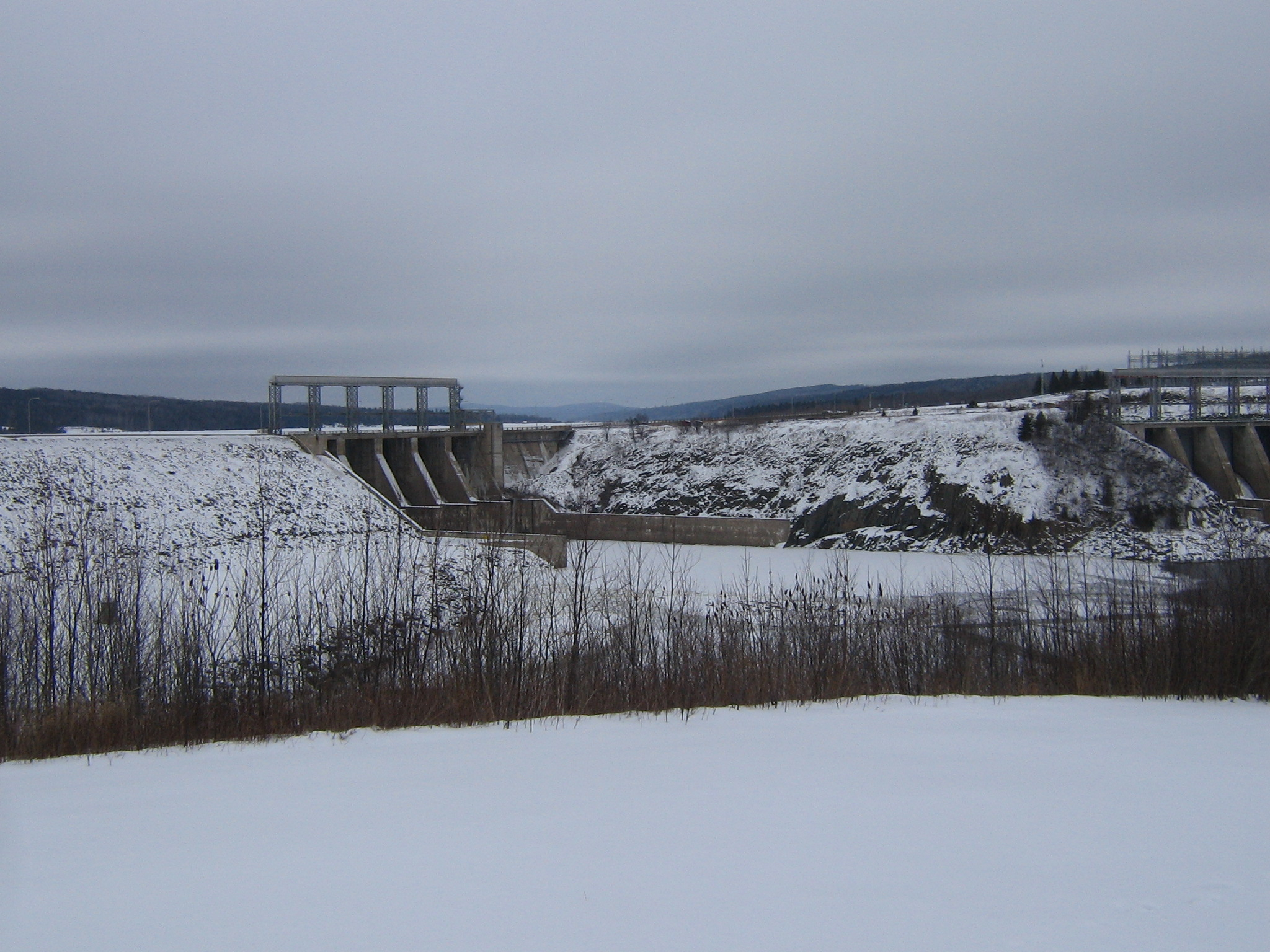 Mactaquac Dam, New Brunswick on the Saint John River. Photograph by Scott Davis, 4 January 2005